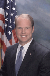 Matthew Whitaker, United States Attorney